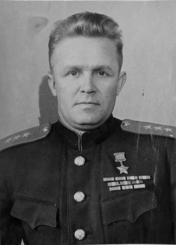 Hero of the Soviet Union Sergey Ignatyevich Rudenko